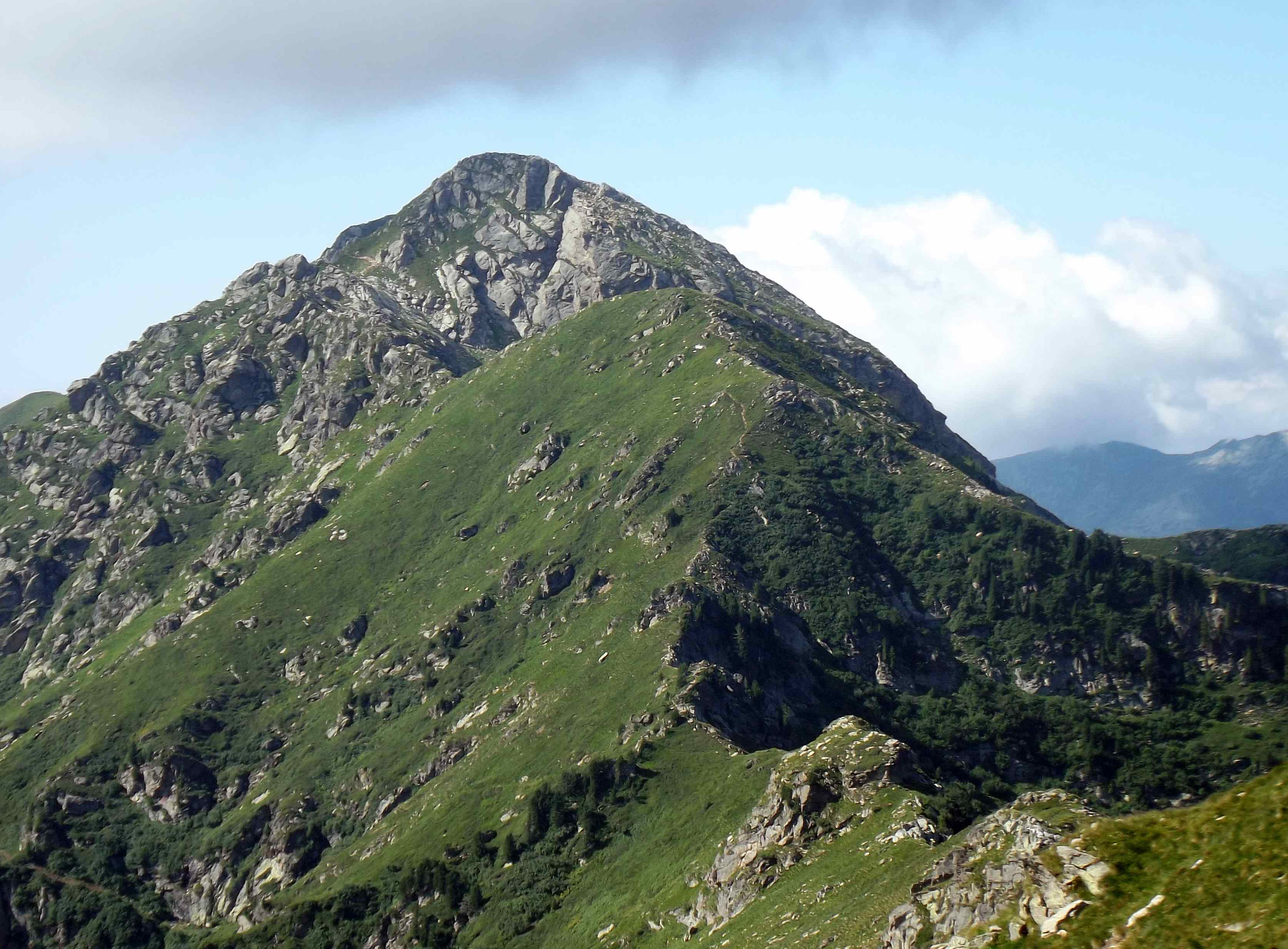 Mount Bechit (Alpi Biellesi) seen fron NE